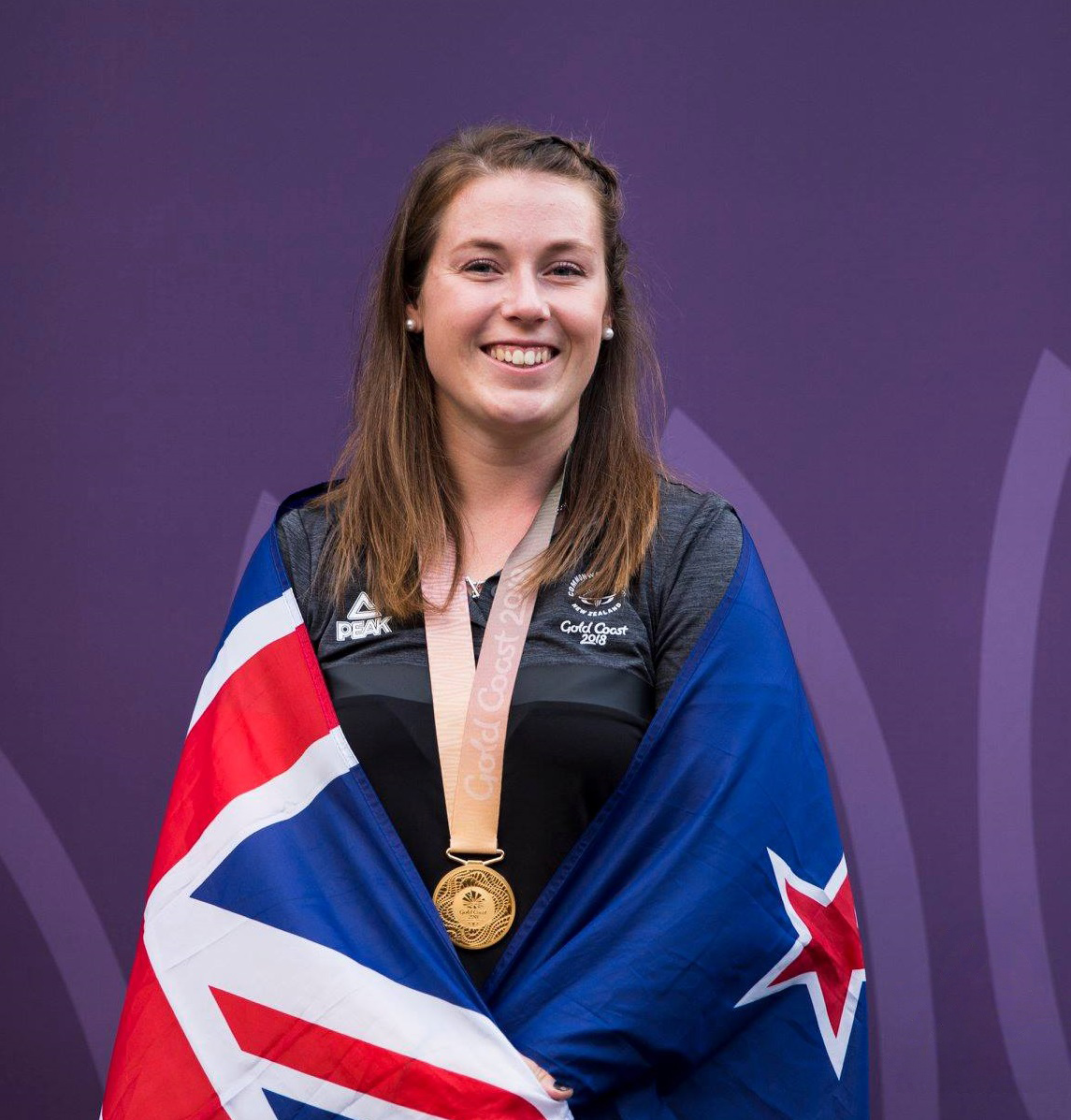 Julia Ratcliffe wins Gold at CWG Gold Coast